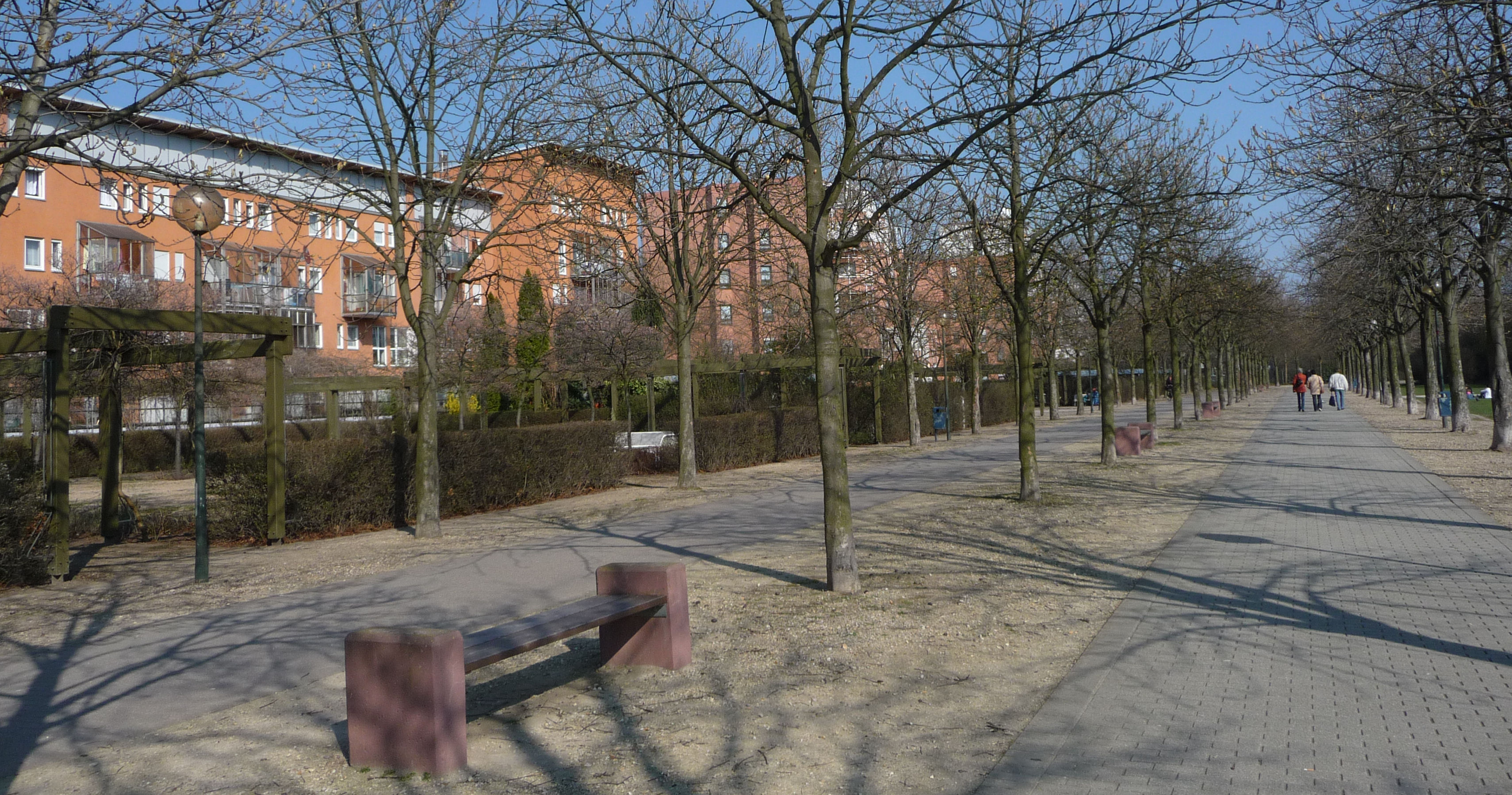 Park in Ludwigshafen, Germany